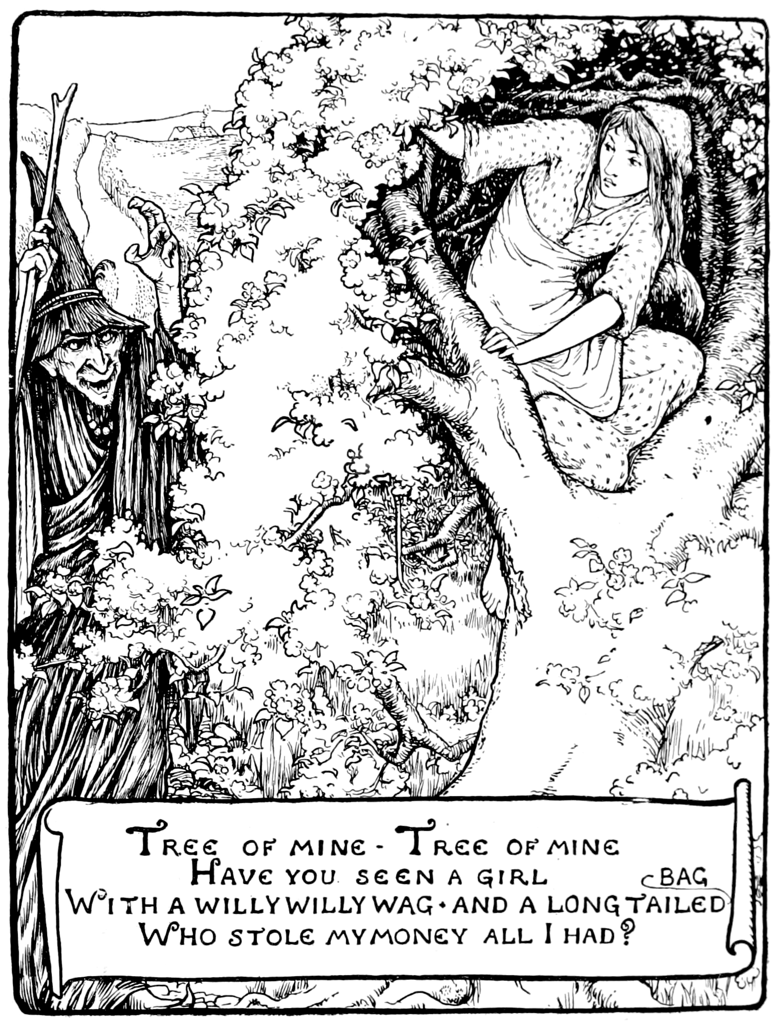 Scan illustration on page of book in a series of fairy tales.